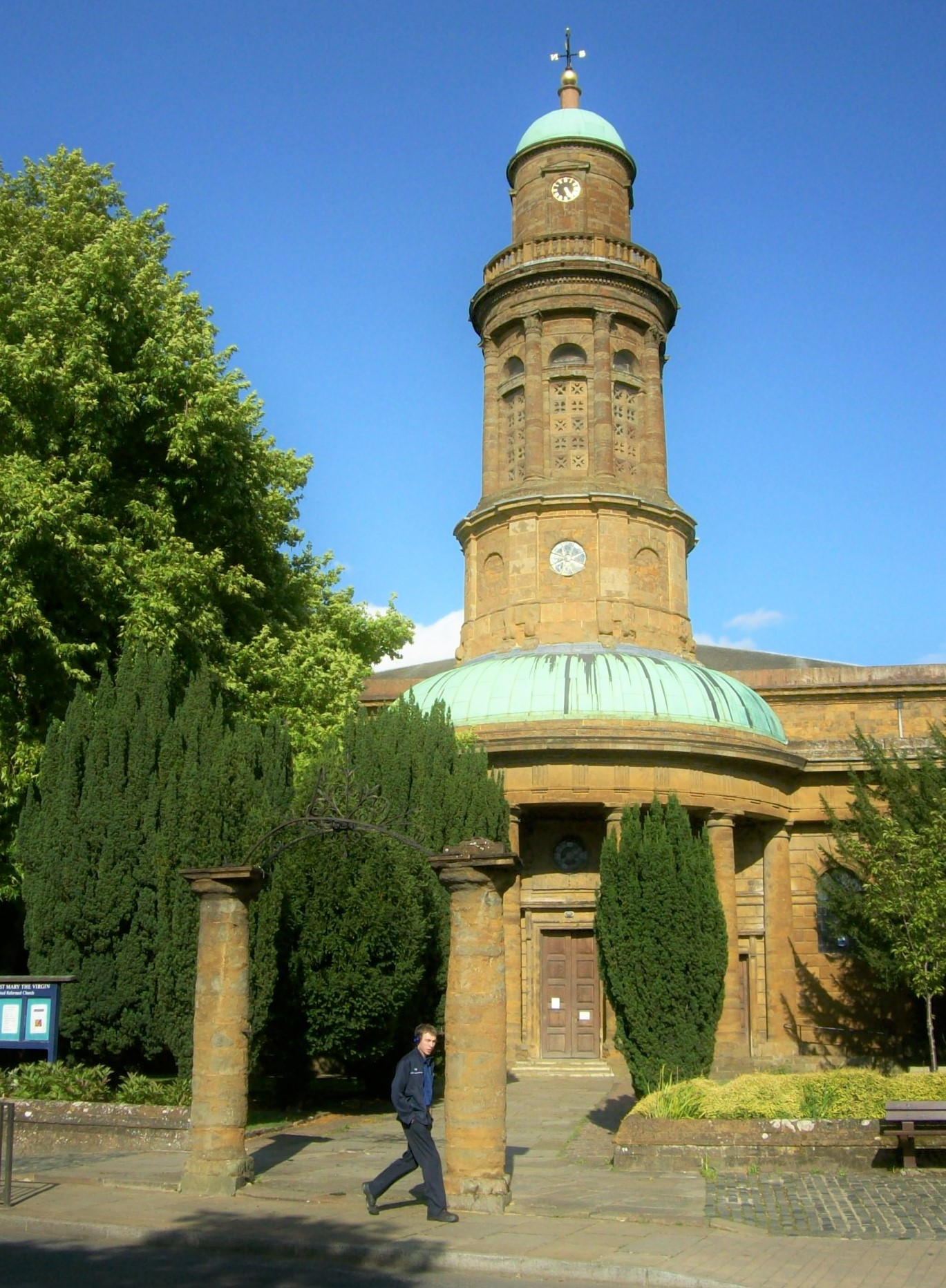 St Mary the Virgin parish church, Banbury, Oxfordshire, seen from the west